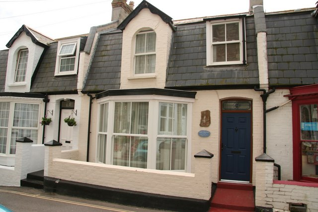 Henry Williamson's former home Former home of Henry Williamson, author of Tarka the Otter, on Capstone Road